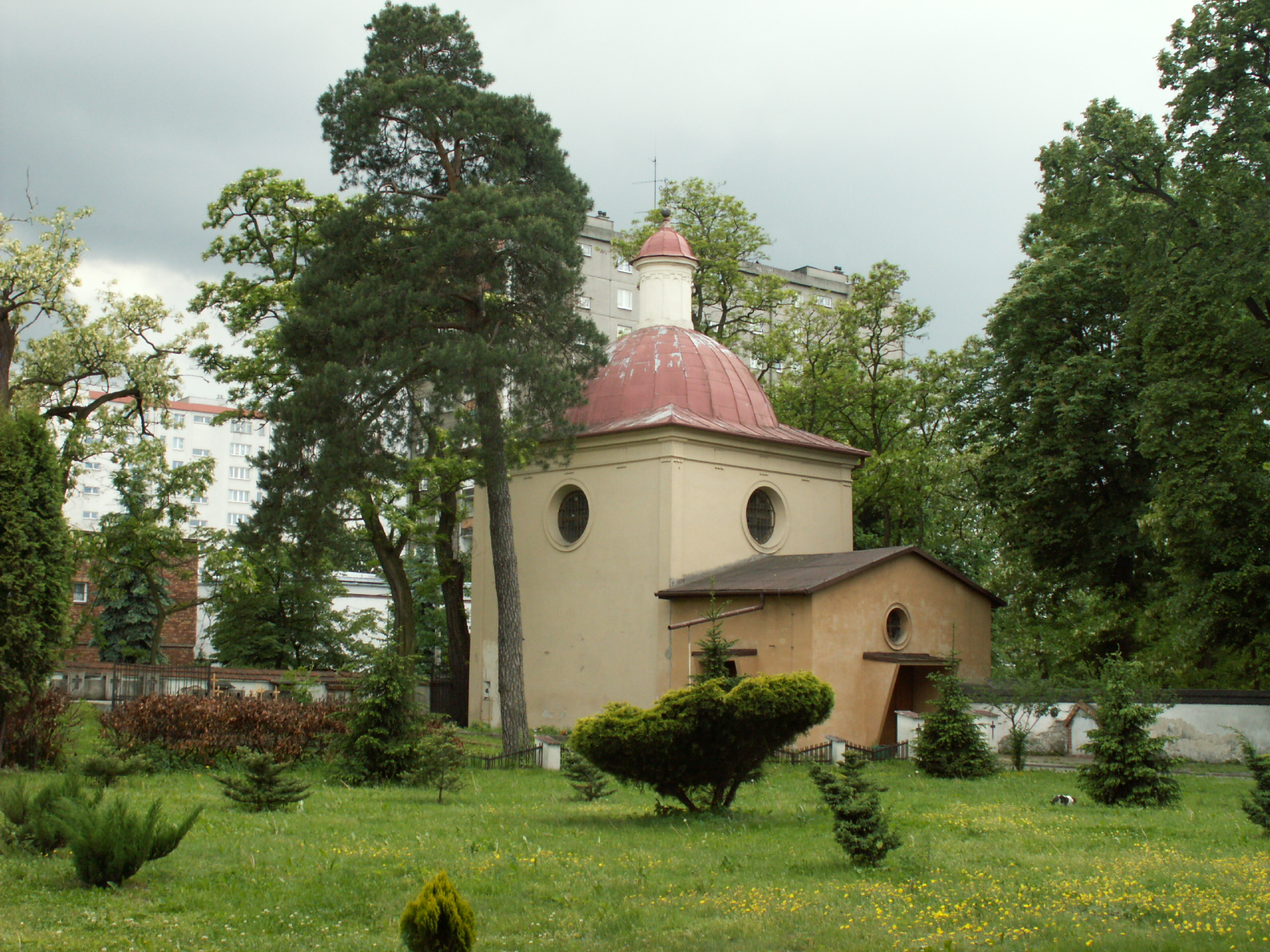 Chapel of John the Baptist in Krakow, Poland. Author: macieias